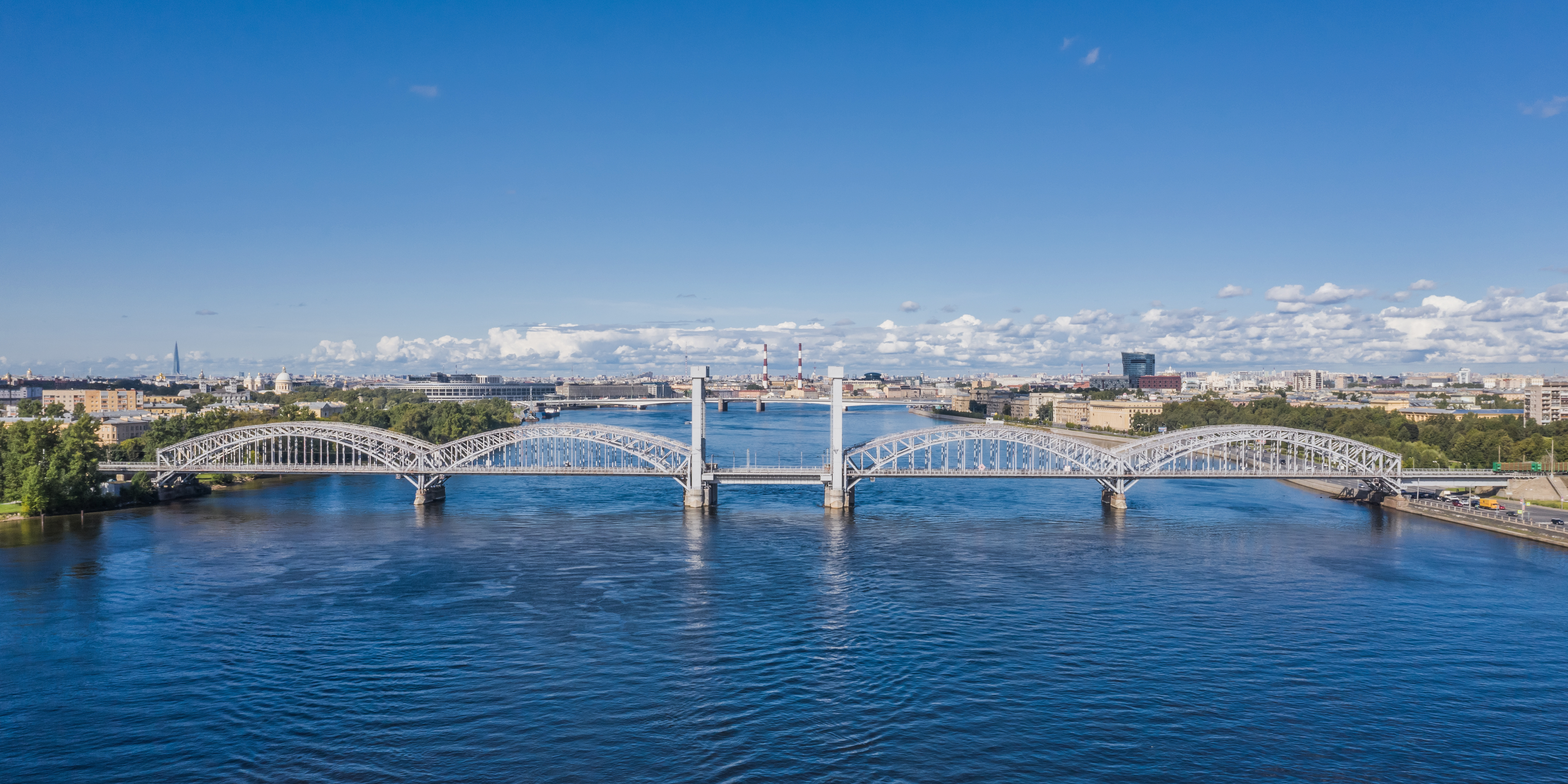 Neva River and Finland Railway Bridge in Saint Petersburg, Russia: aerial photo